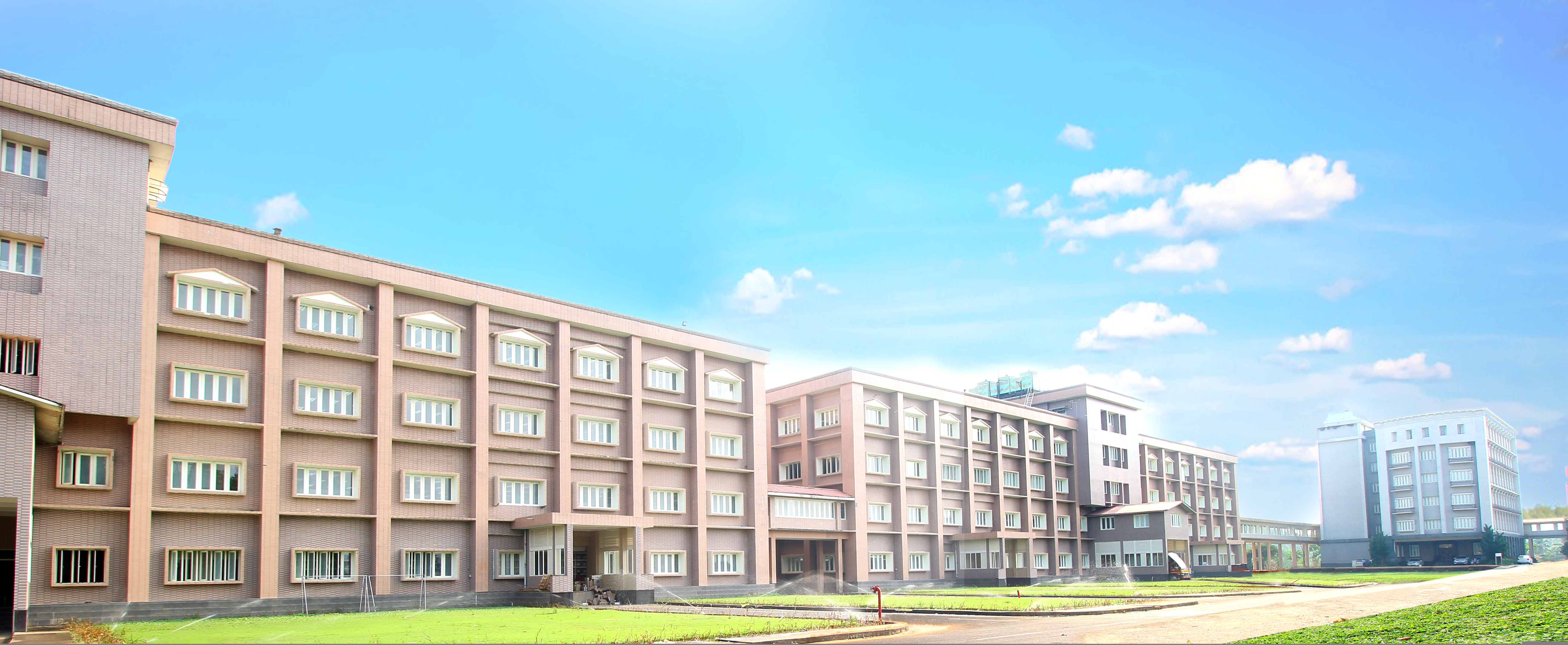 Twenty20 Kizhakkambalam